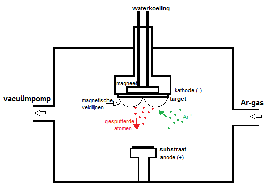 magnetron sputtering